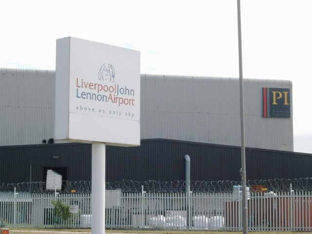 PI Building near Liverpool John Lennon Airport